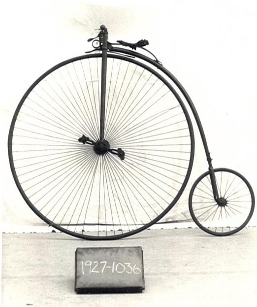 An object from the collections of the Science Museum (London) as copied from their ObjectWiki.